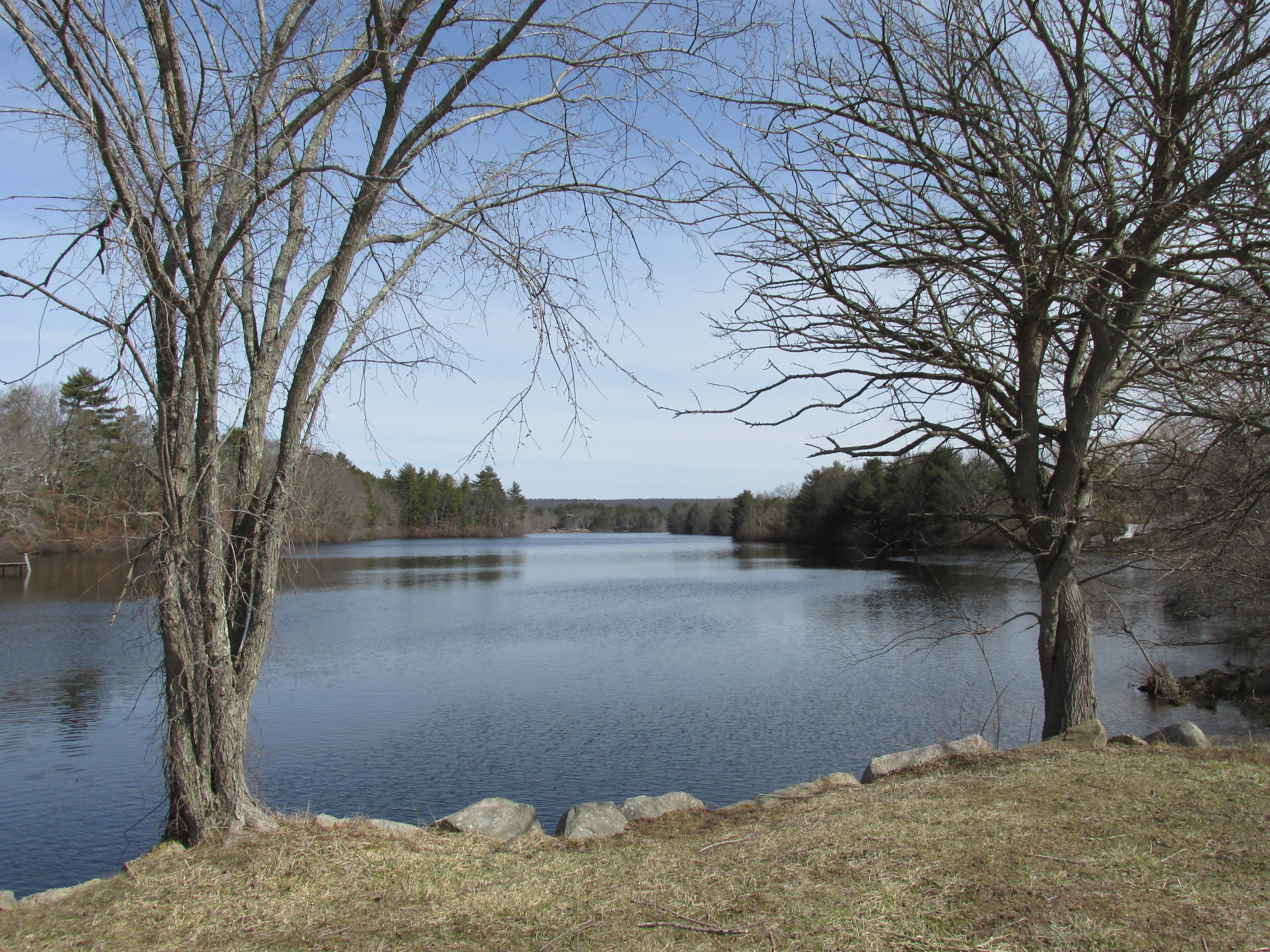 Wyoming Pond, Wyoming Rhode Island